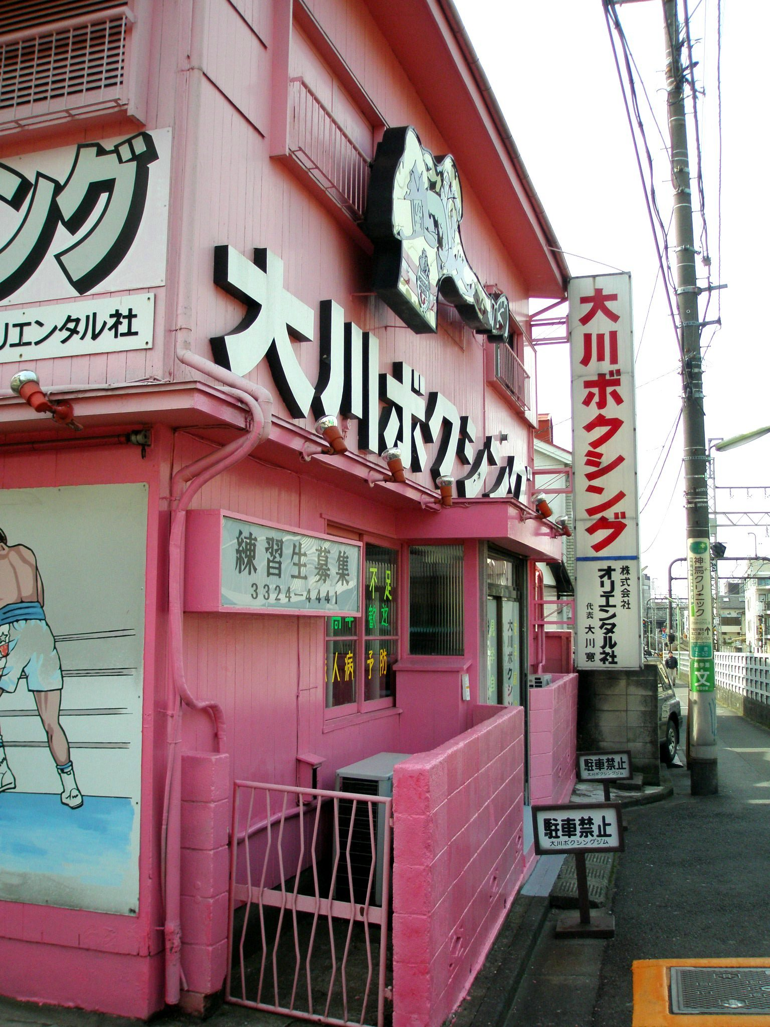 The current Ohkawa's Boxing Gym founded by the double OPBF champion and the double Japanese champion Hiroshi Okawa in 1962. Setagaya, Tokyo, Japan.